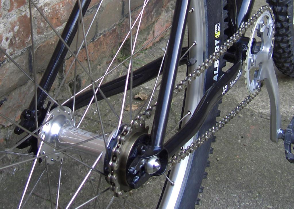 Track fork ends on a singlspeed mountainbike/Bahn-Gabelenden an einem Singlespeed-Mountainbike